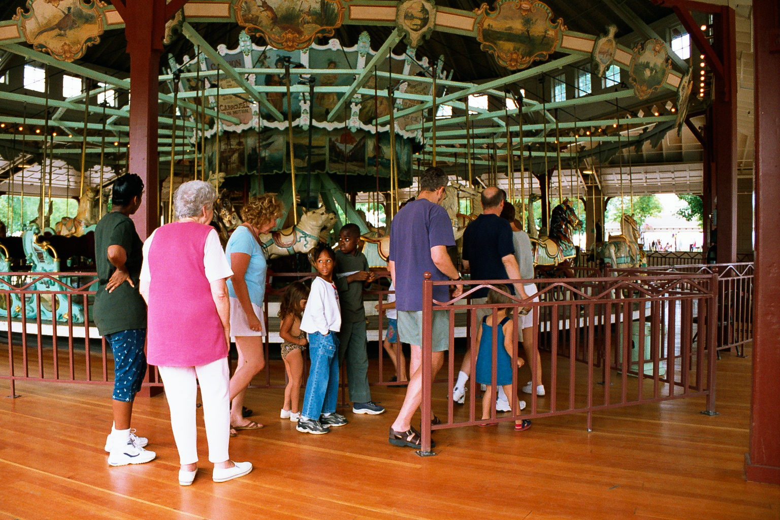 People waiting for a drive on the Dentzel Carousel in Rochester. This carousel was built in 1905.